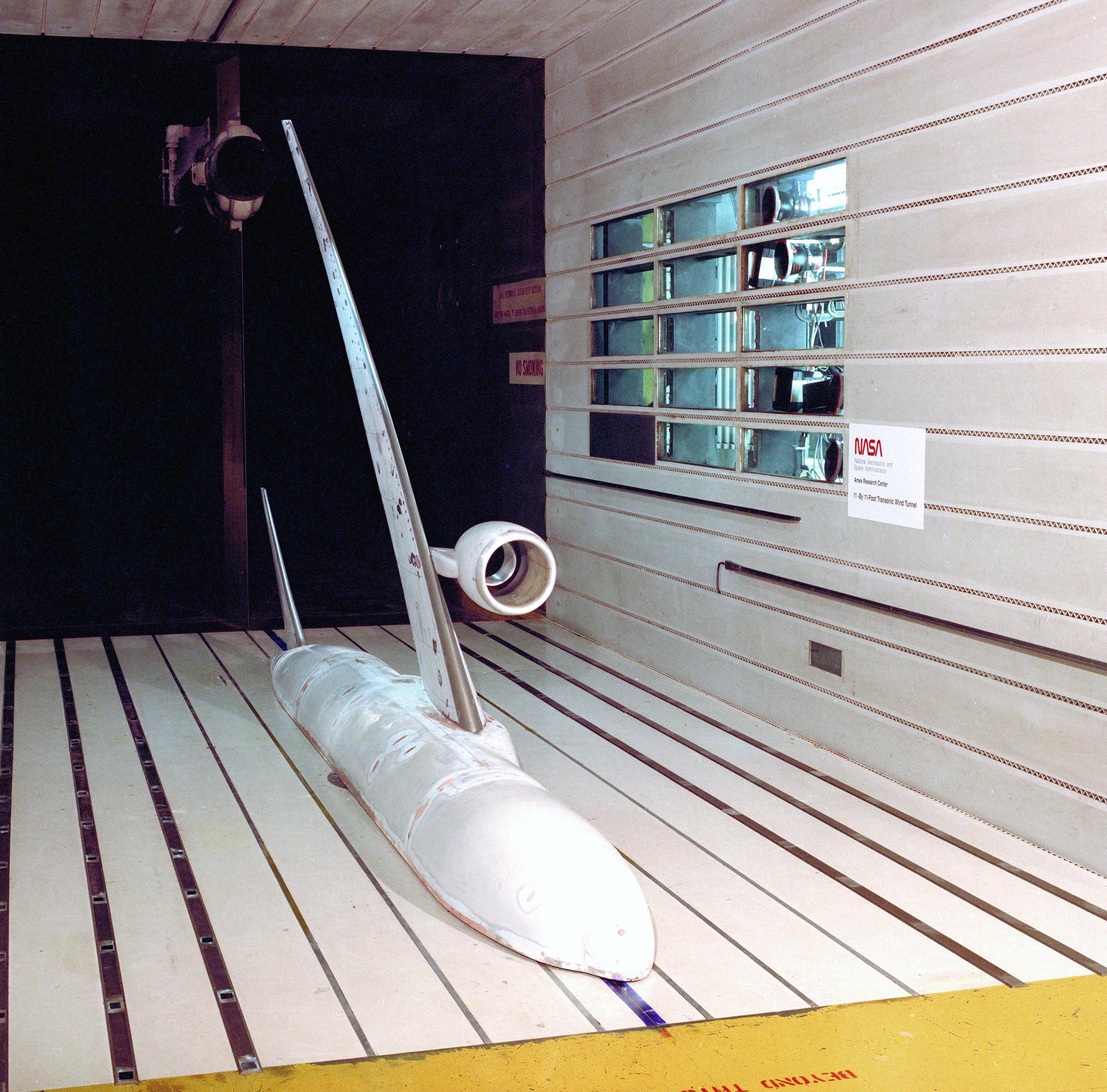 (AC91-0470-1): A semi-span Boeing 777 airliner undergoing tests in the 11- by 11-foot test section.